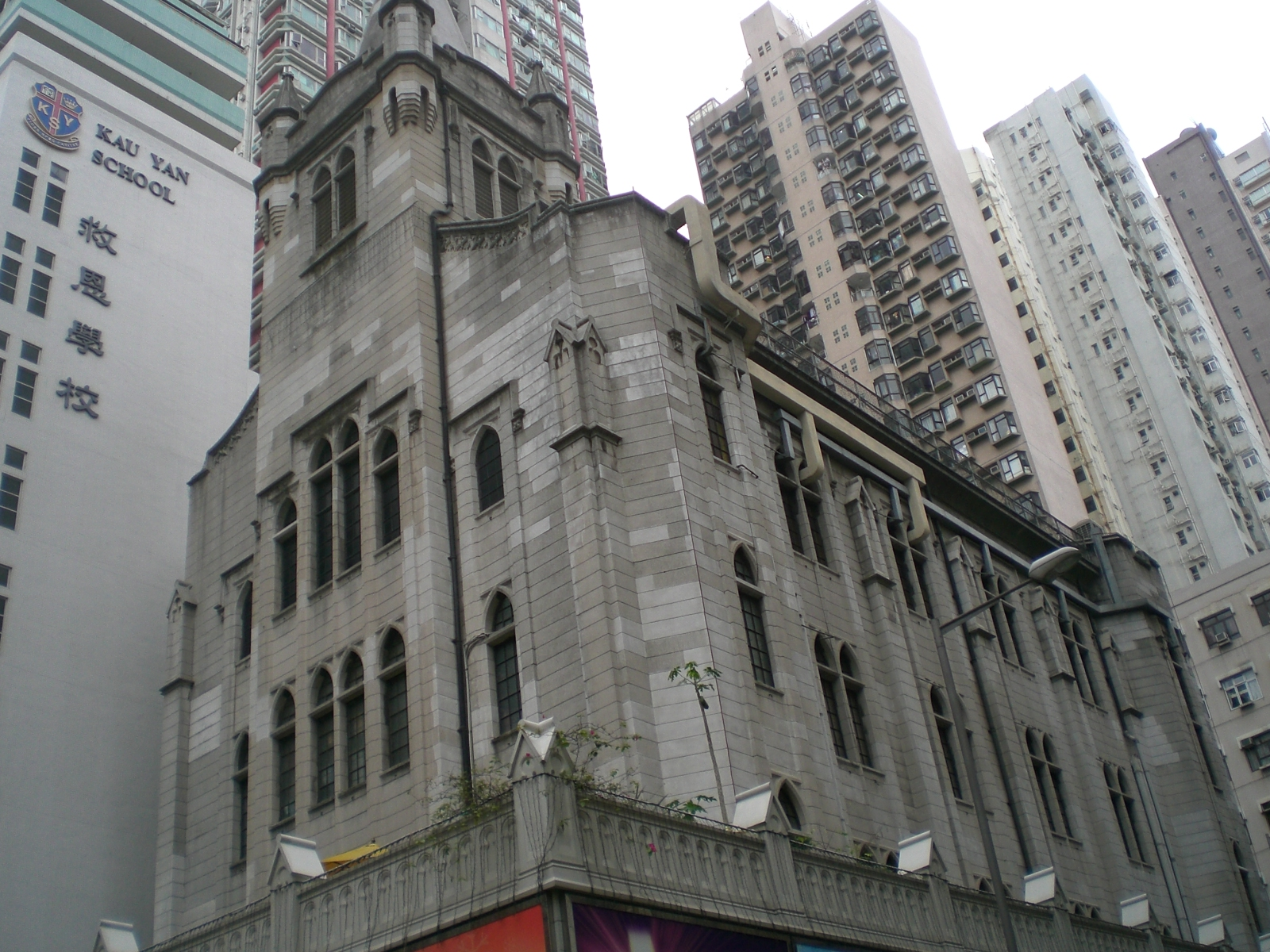 Western Street, Hong Kong, 西邊街香港基督教崇真會救恩堂 Photo author is me, User:Kwanyatsw